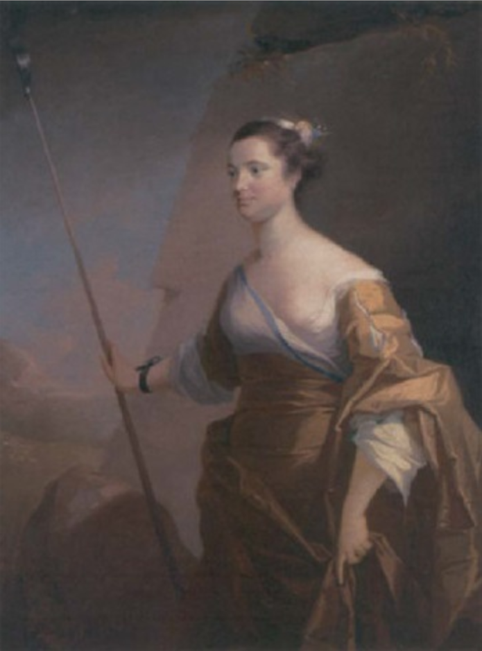 Portrait of Mary Johnson, daughter of Thomas Johnson of London and 2nd wife of Francis Drewe (1712–1773) of The Grange in the parish of Broadhembury in Devon, Sheriff of Devon in 1738. (Source: Vivian, Lt.Col. J.L., (Ed.) The Visitations of the County of Devon: Comprising the Heralds' Visitations of 1531, 1564 & 1620, Exeter, 1895, p.308) portrait dated 1754 (one year after her marriage) showing her dressed as a shepherdess, in a gold dress, with flowers in her hair, holding a crook in her left hand. Catalogued as: British School Title: Portrait of Mrs. Drewe, of Grange, near Honiton, as a shepherdess, in a gold dress, with flowers in her hair, holding a crook in her left hand, 1754–1754. Medium: Oil on Canvas. Size: 126.5 cm × 96.5 cm (49.8 in × 38.0 in) Present location unknown[1]